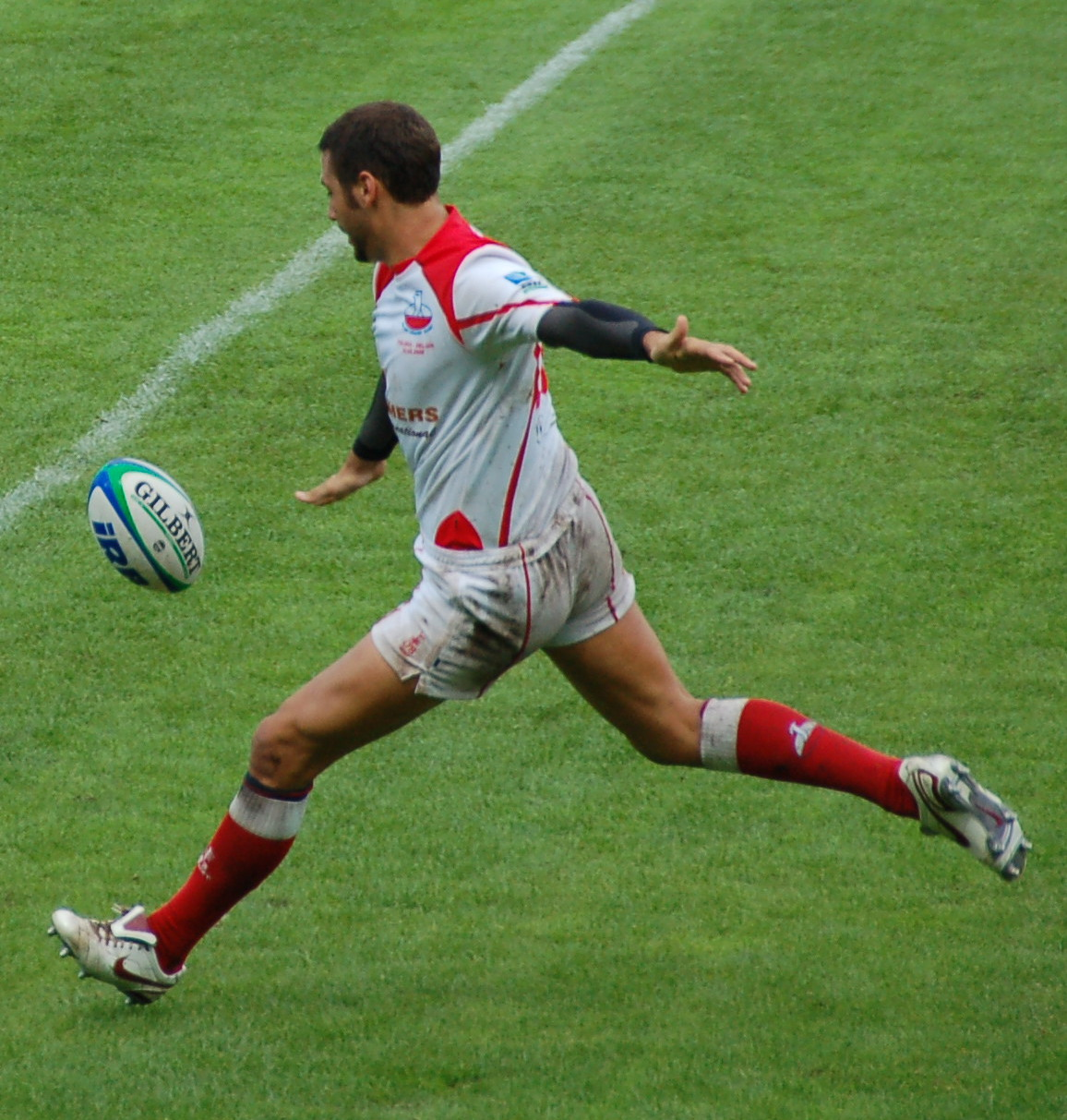 French-born Poland international rugby union player David Chartier.